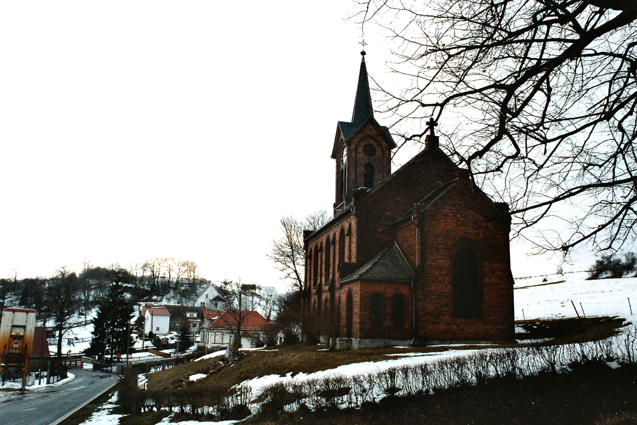 The church St.Peter and Paul